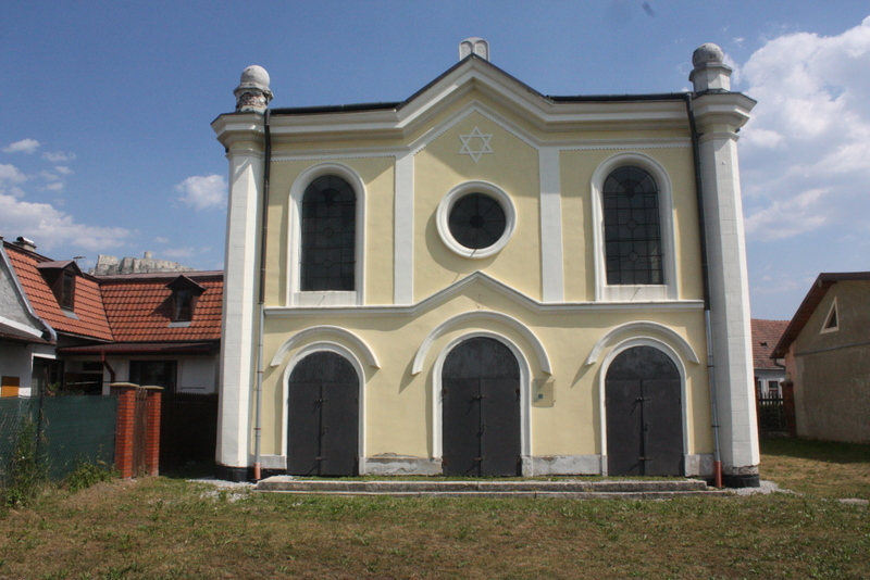 Spišské Podhradie Synagogue, Slovakia